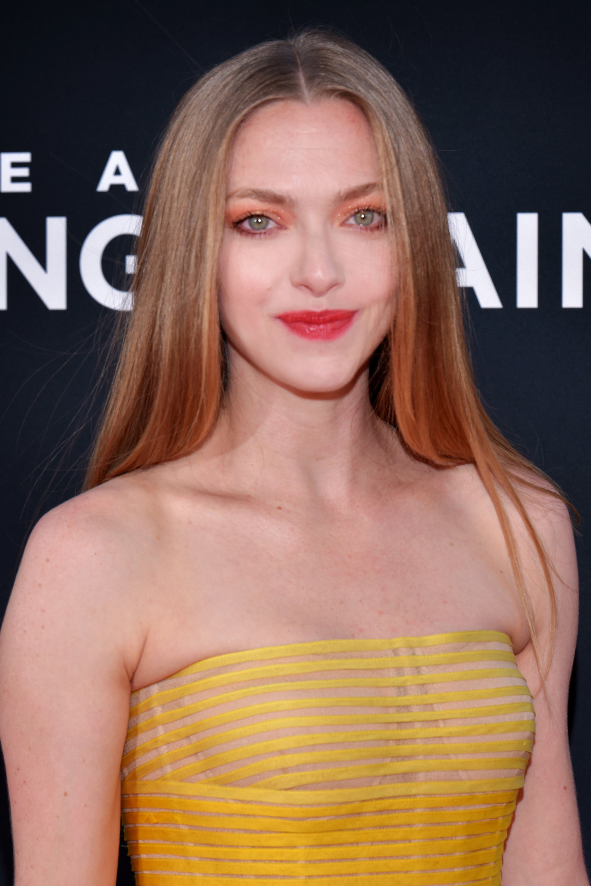 Amanda Seyfried at the premiere of "The Art of Racing in the Rain" on August 1, 2019